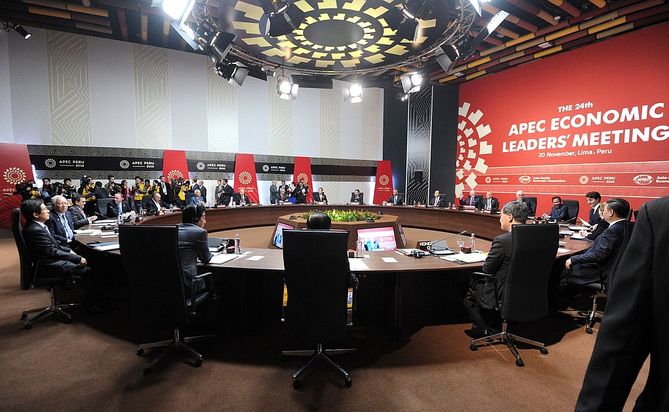 The first working session of the heads of state and government of the 2016 Asia-Pacific Economic Cooperation forum.